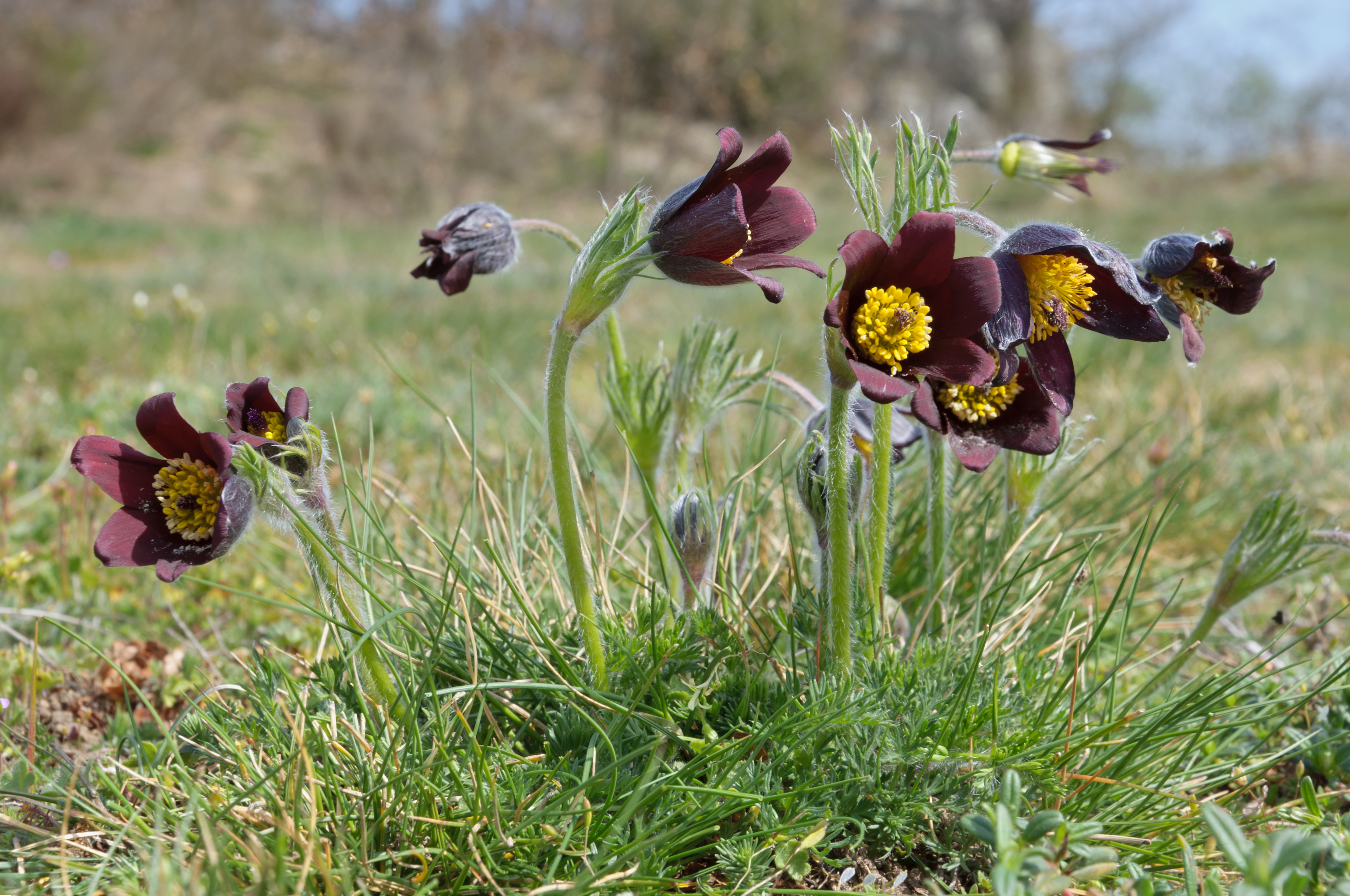 Pulsatilla rubra, near Lorlanges, Haute-Loire, France.